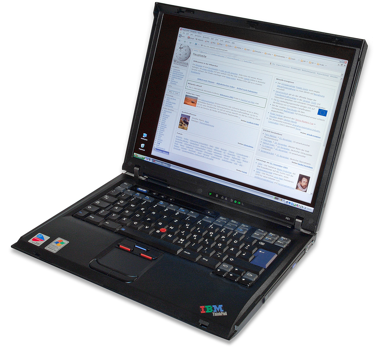 IBM Thinkpad R51. The logos shown in this picture are copyright.